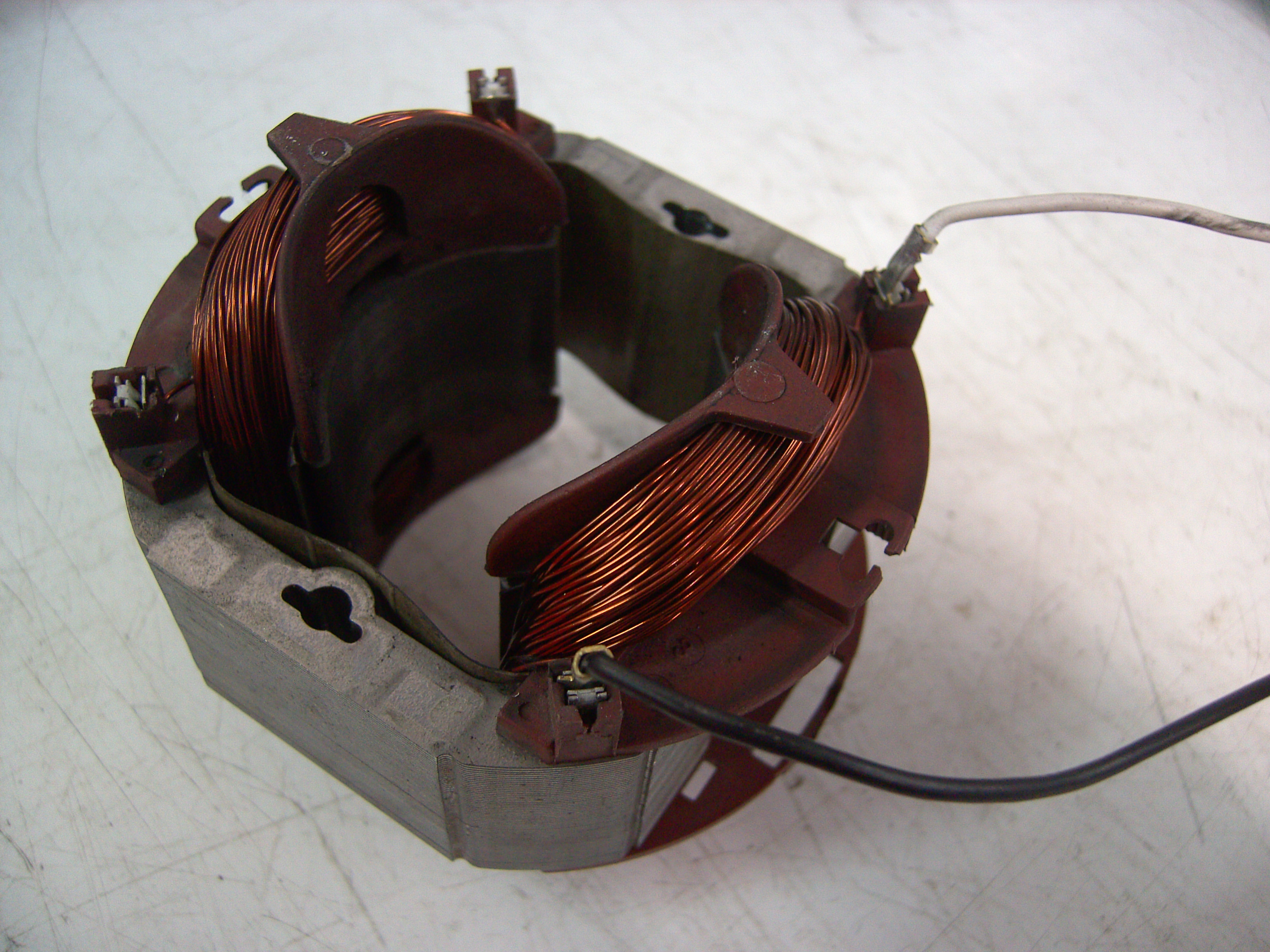 Stator of a vacuum cleaner universal motors